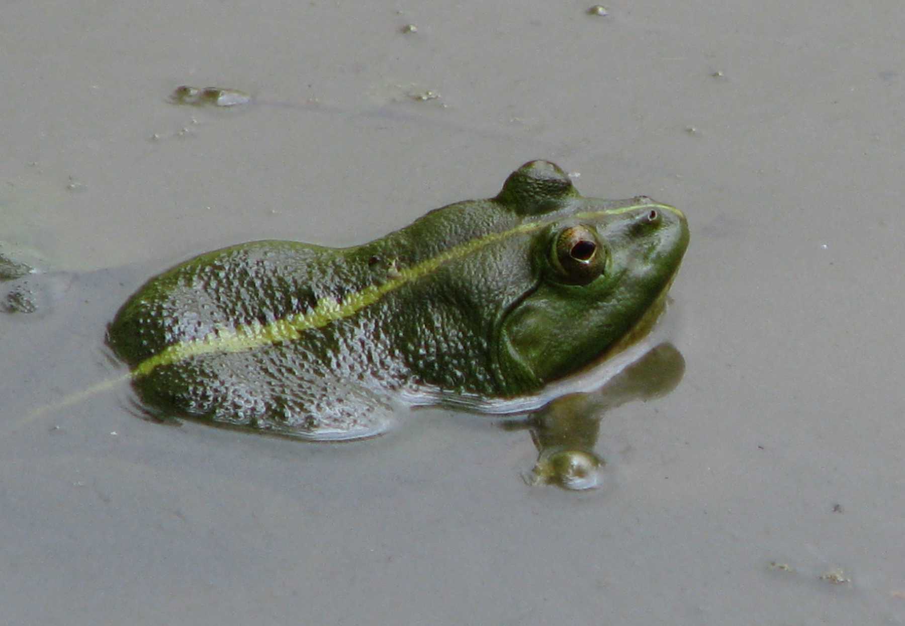 Green Frog/Green Pond Frog/Indian Green Frog, Euphlyctis hexadactylus [Rana hexadactyla]